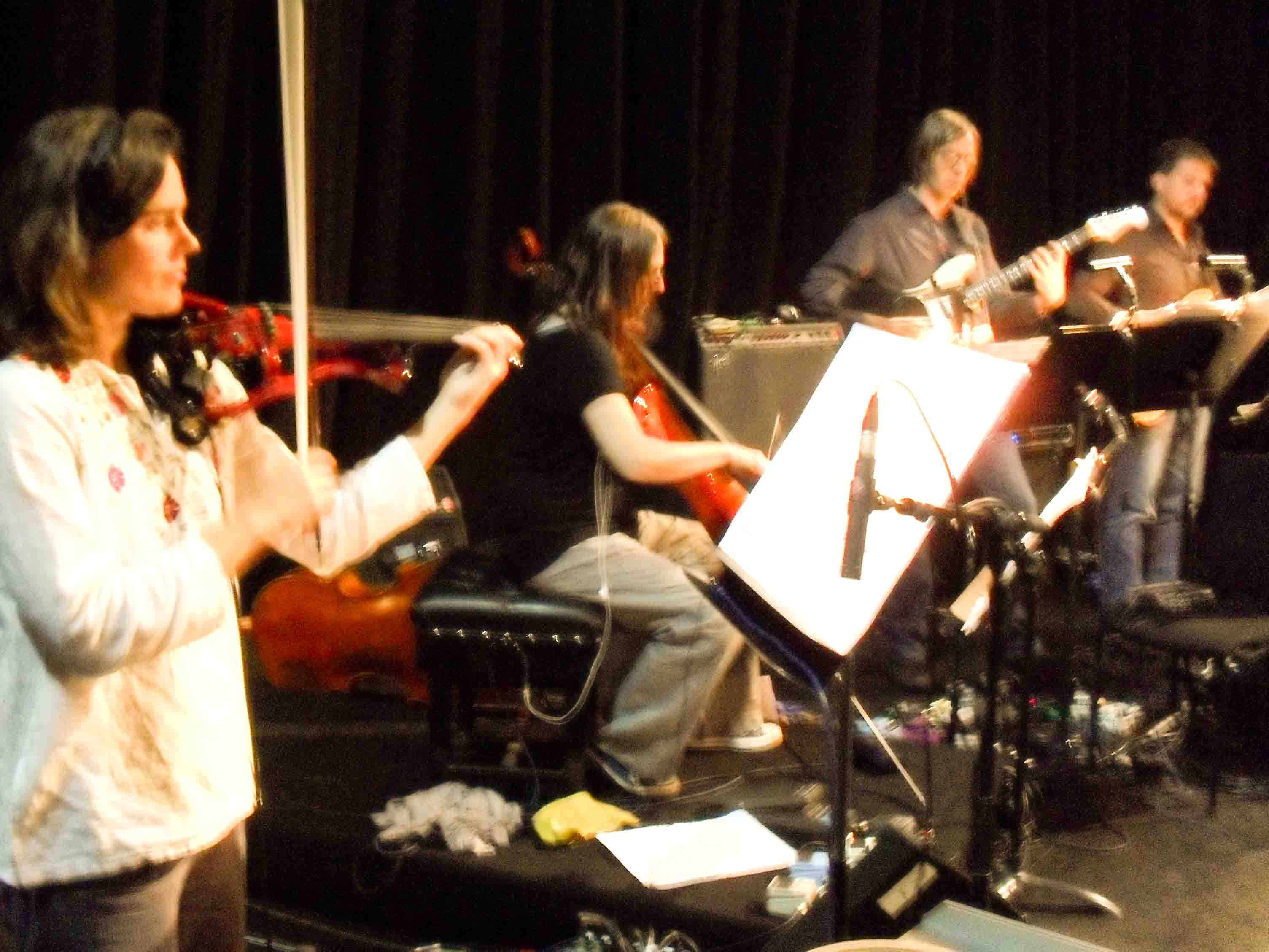 Icebreaker live at Queen Elisabeth Hall, September 2010